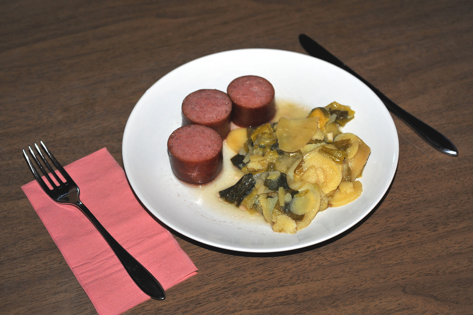 Treberwurst, a local speciality of the lake Biel vineyard region, here served with field garlic and potatoes; Berne, Switzerland.